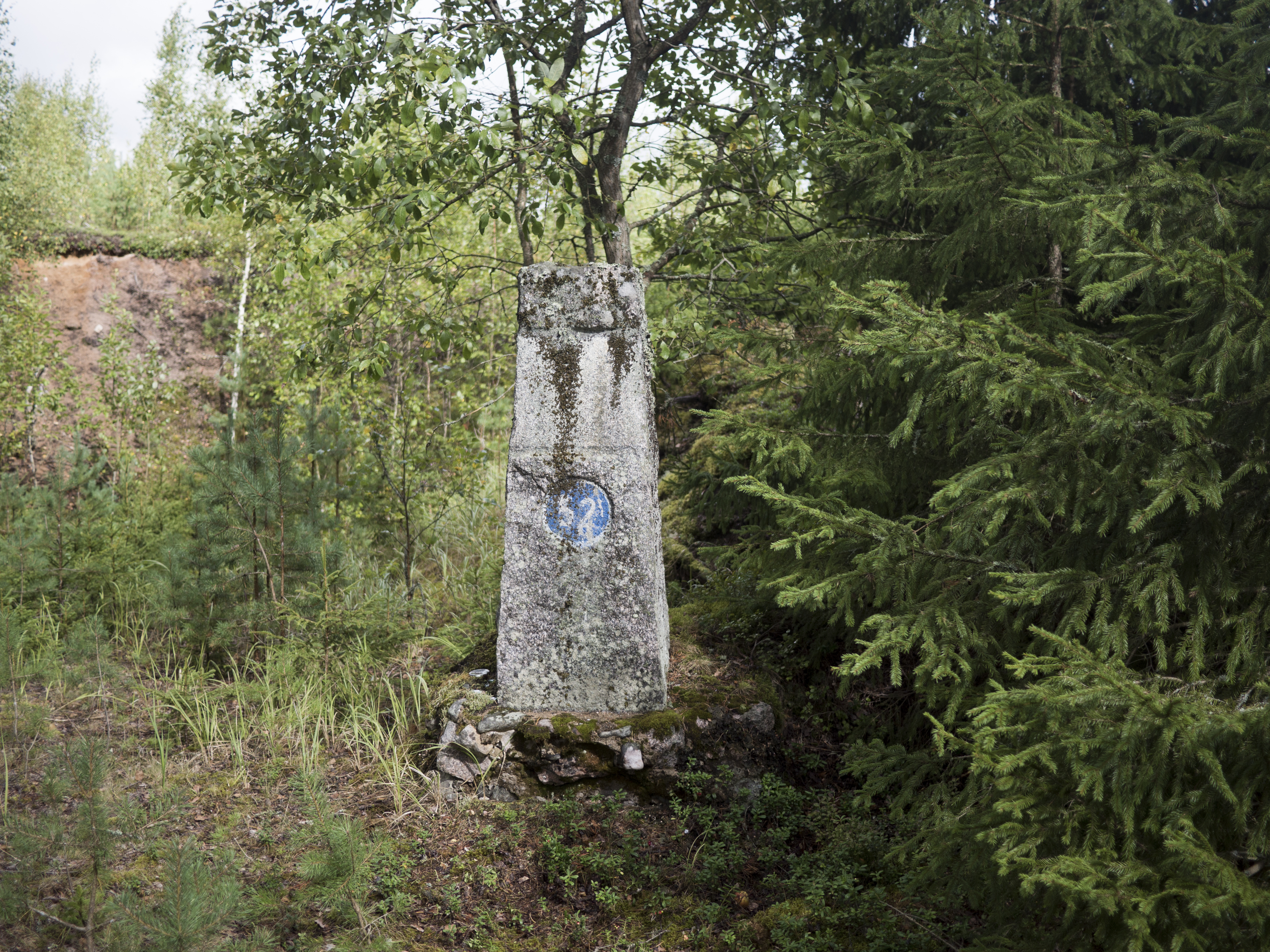 A road sign indicating the "King Road" between towns of Perniö and Tammisaari in Finland